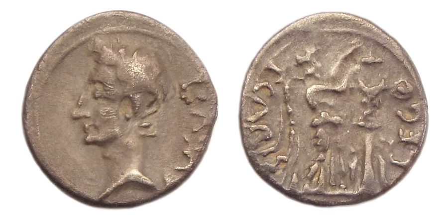 Roman AR Quinarius of Emperor Augustus, Emerita mint. P. Carisius, legate, struck circa 25-23 BC Obverse: Bare head left / AVGVST behind. Reverse: Victory standing right, crowning trophy / P CARISI LEG.